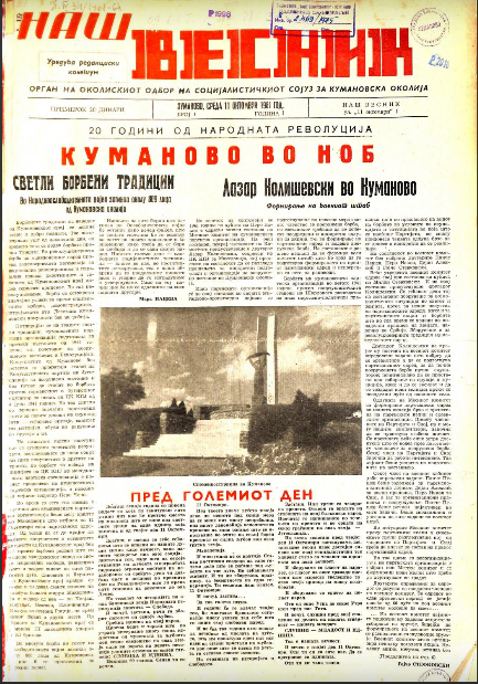 First cover of Nash Vesnik Kumanovo from 11.10.1961